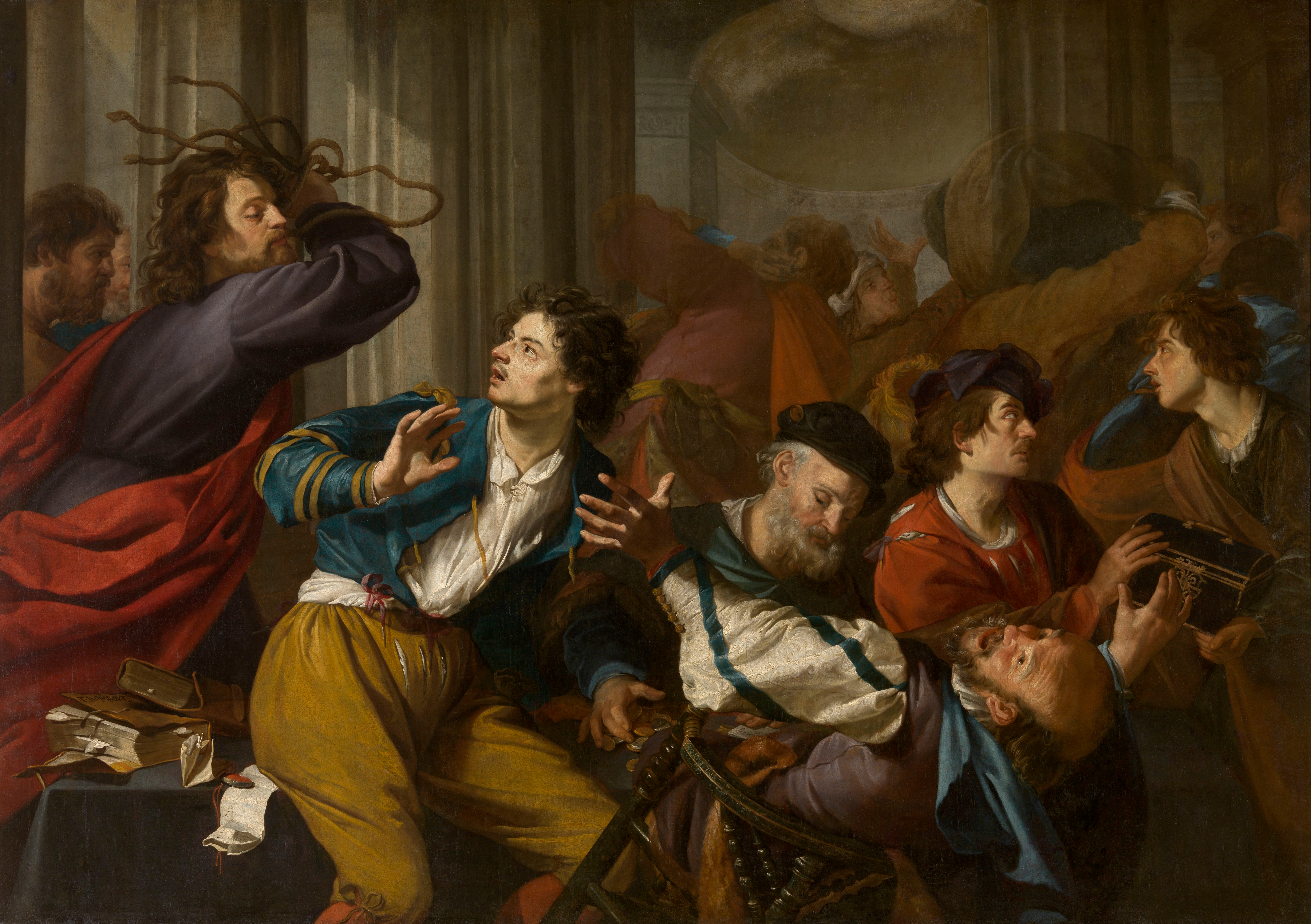 Theodoor Rombouts, Christ Driving the Money-changers from the Temple, oil on canvas, 168 x 238,5 cm, Royal Museum of Fine Arts Antwerp